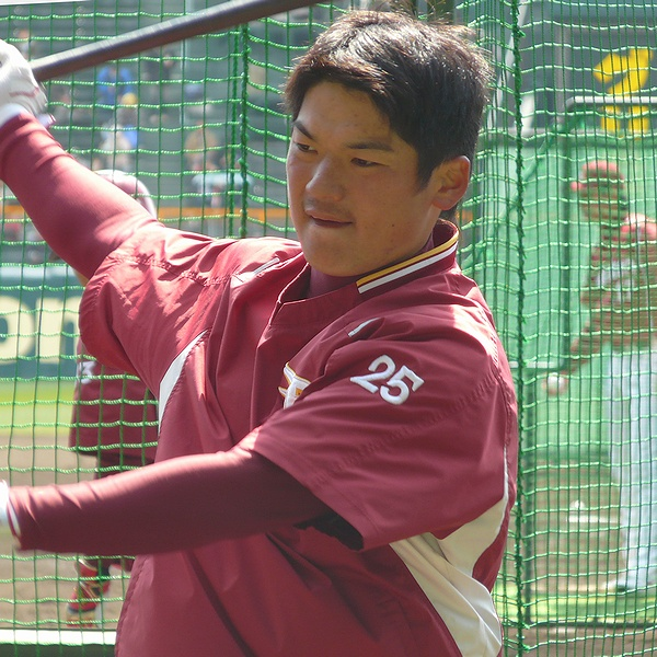 RE-Fuminori-Yokogawa20110309